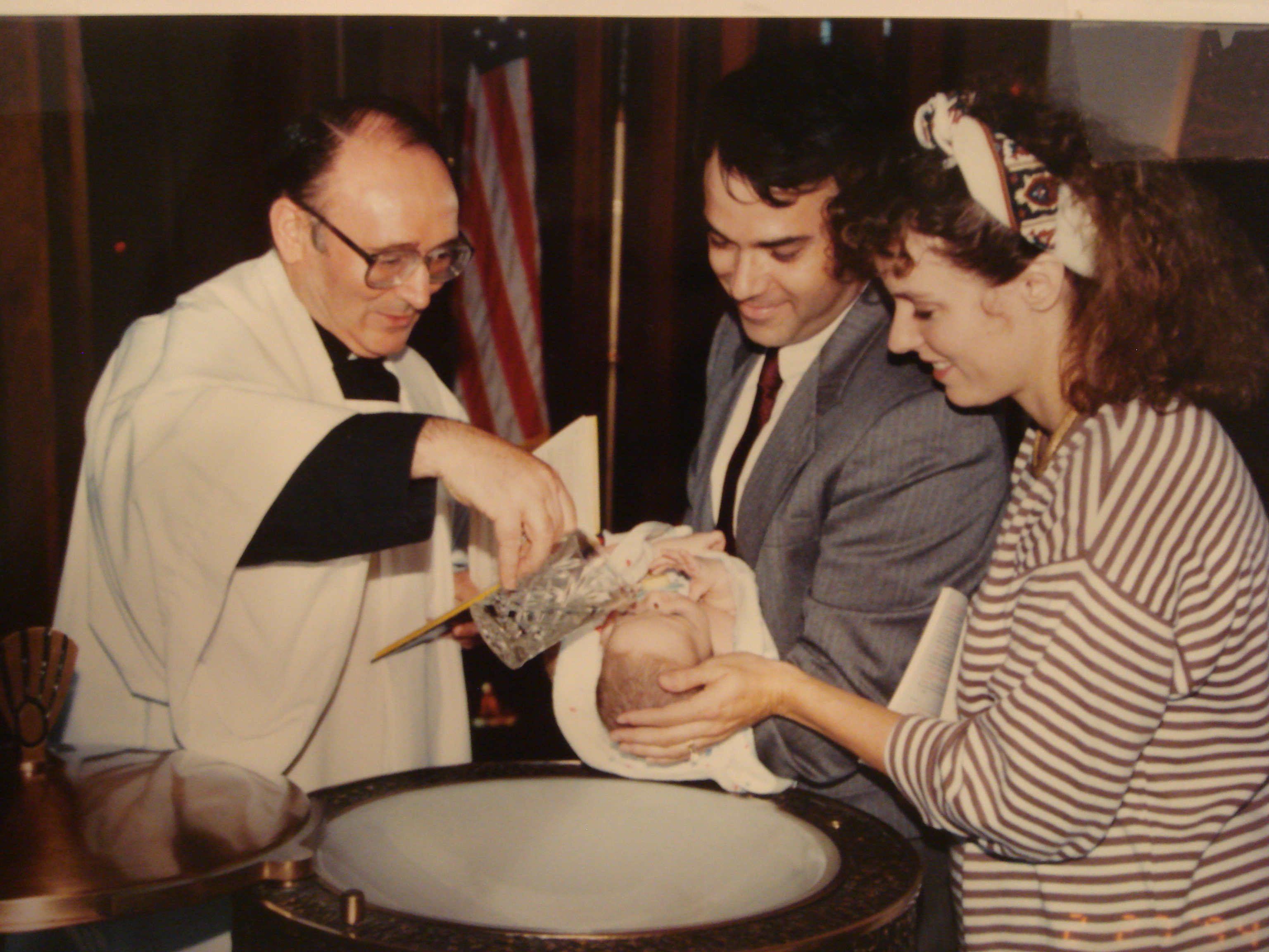 Modern Baptism in a Catholic Church